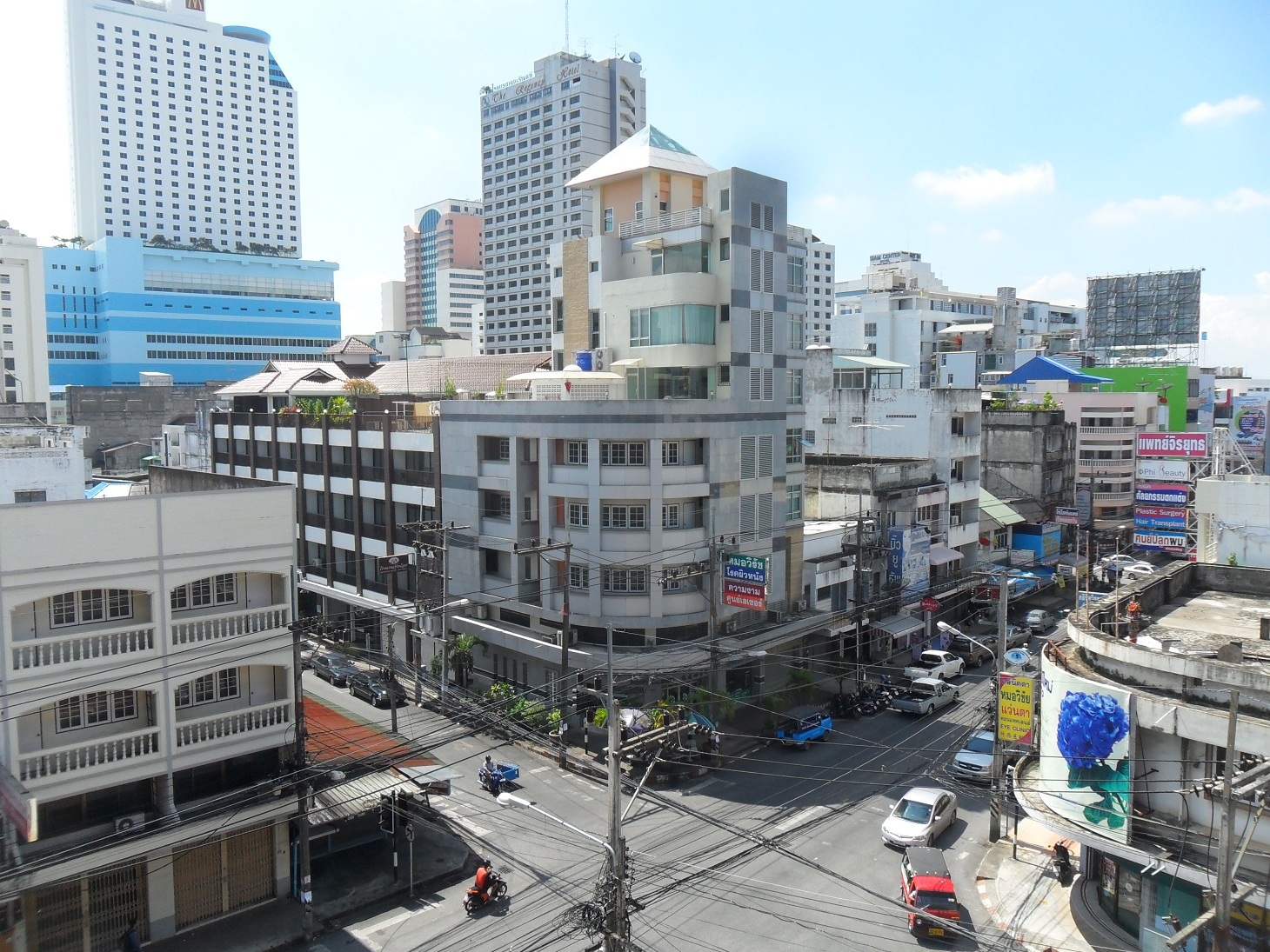 Downtown of Hat Yai, Thailand